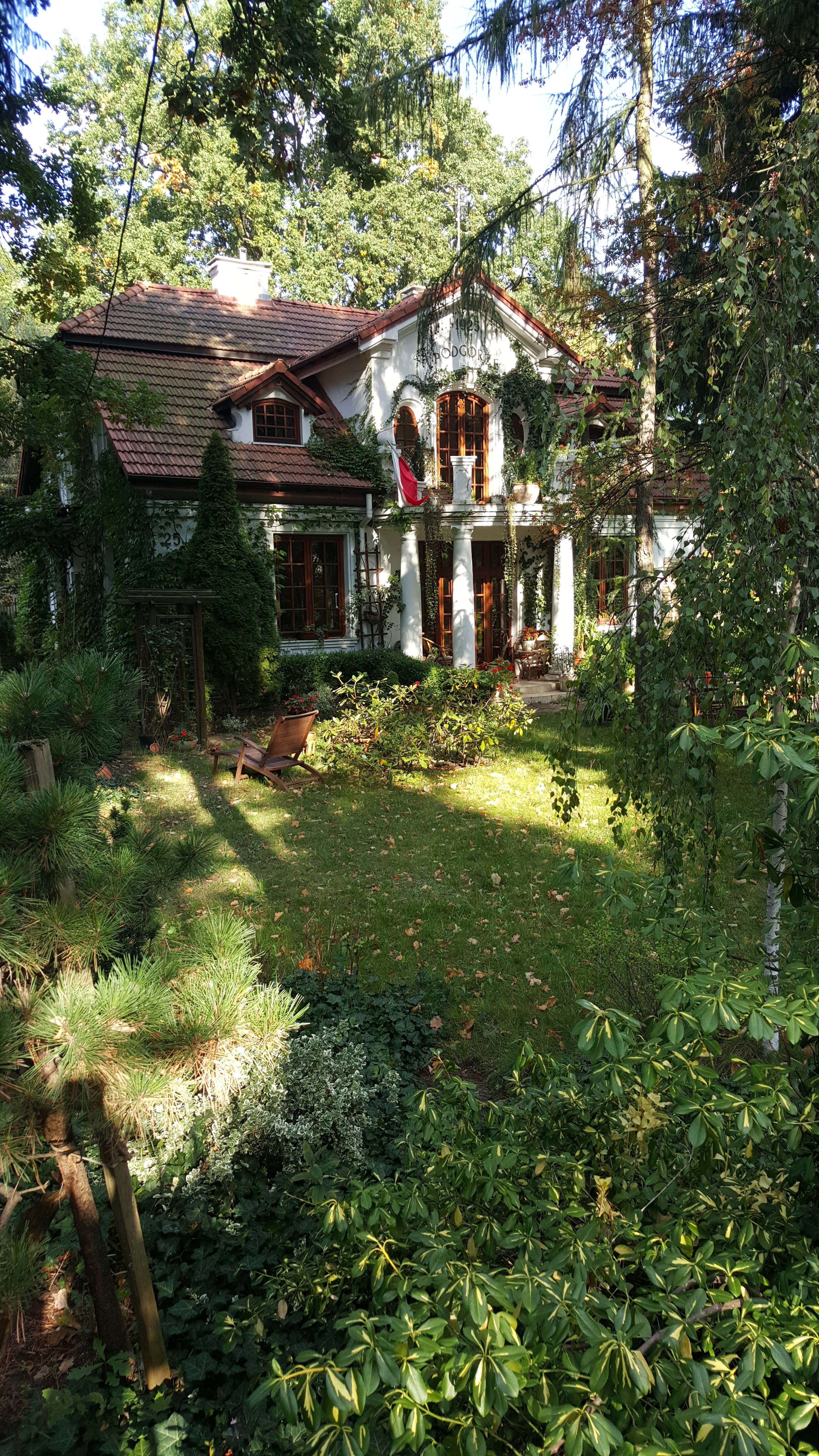 House in Milanówek